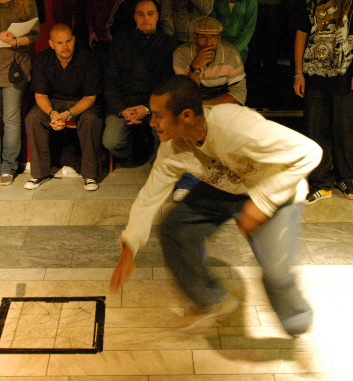 the winner of the Swedish National Championships in Popping, Razzle Dazzle. Competition held at Lava, Kulturhuset, Stockholm. In the background the three judges, from left to right; Prime, 2 Easy and Damon Frost.